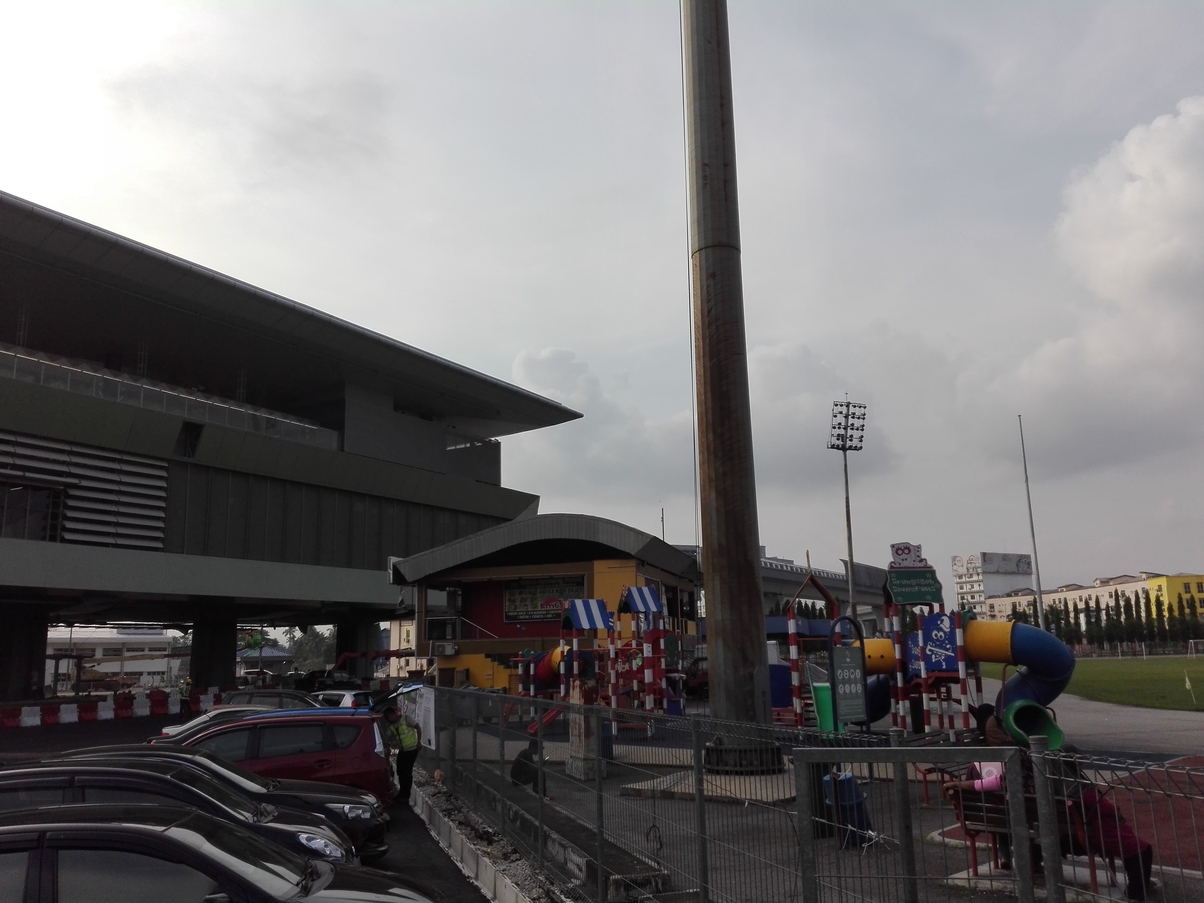 The Stadium Kajang MRT station is located right beside the stadium it is named after.